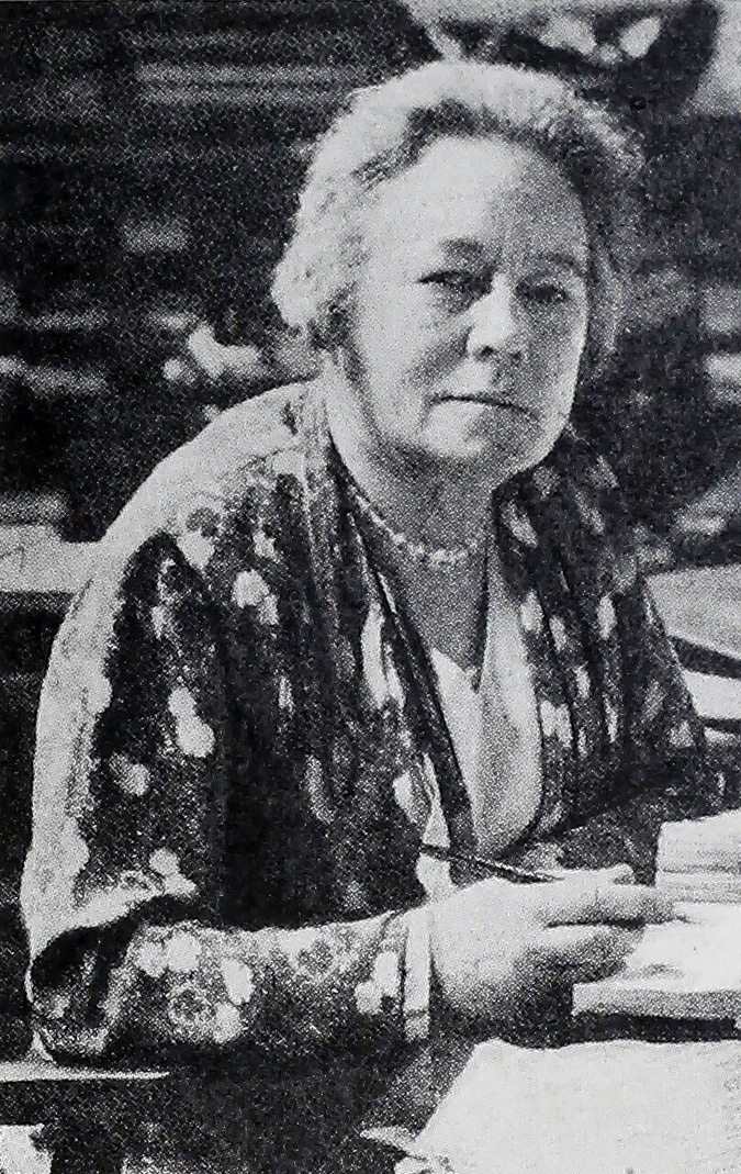 Portrait of Elizabeth M. Kennedy, President of the Women's Engineering Society from 1932 to 1934